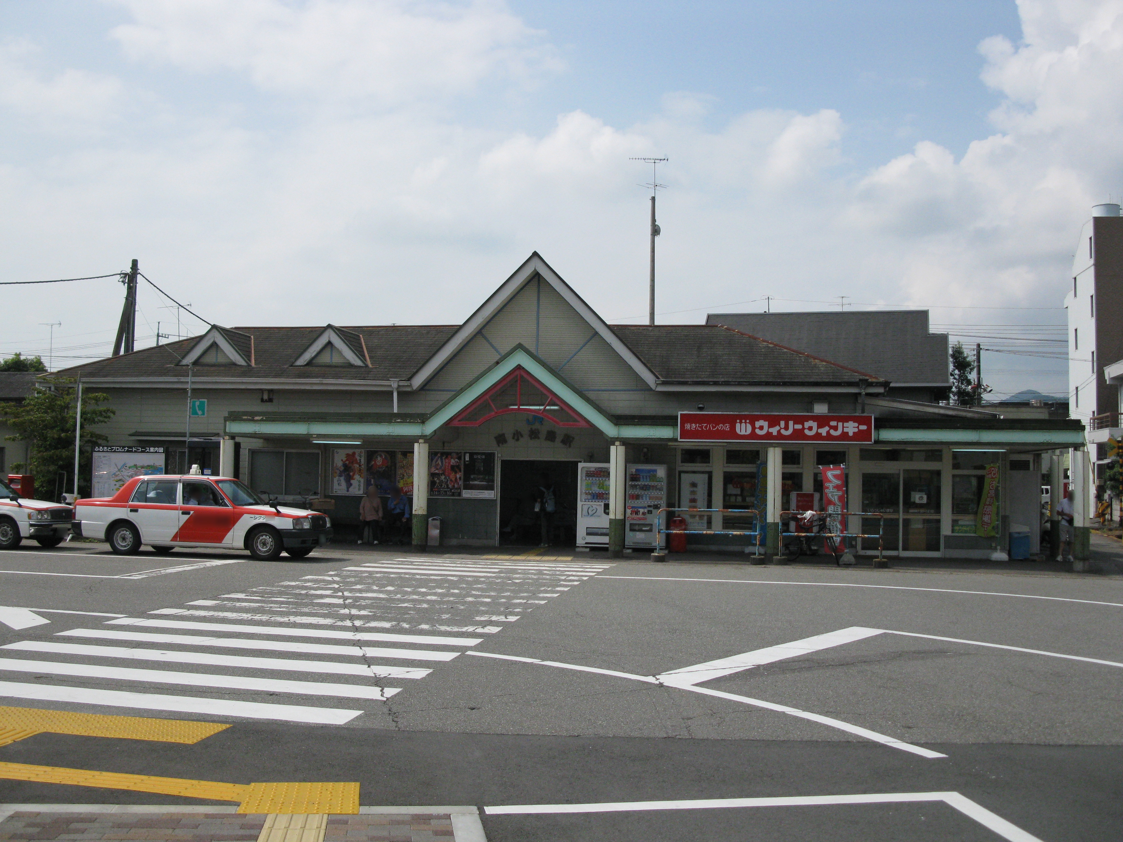 The building of Minami-Komatsushima Station on the Shikoku Railway(JR Shikoku) Mugi Line in Komatsushima city, Tokushima prefecture, Japan